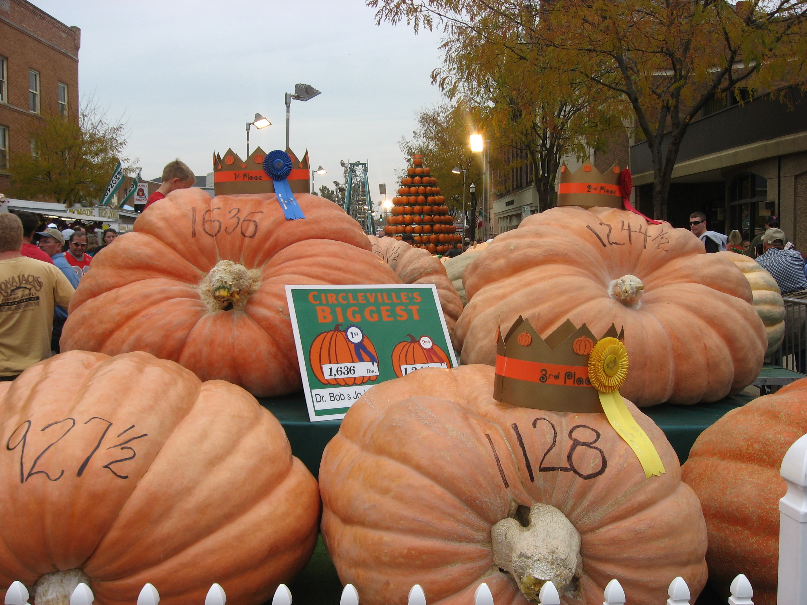 Champions of the heaviest-pumpkin competition at the 2009 Circleville Pumpkin Show, sitting on an exhibition stand at the intersection of Court and Main Streets in downtown Circleville, Ohio, United States. Numbers written on pumpkins signify their weights in pounds.